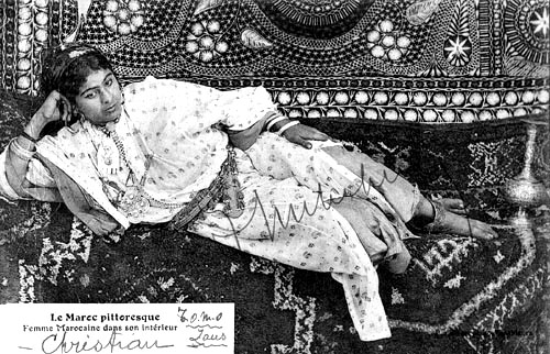 Historical photographs of Moroccan women.